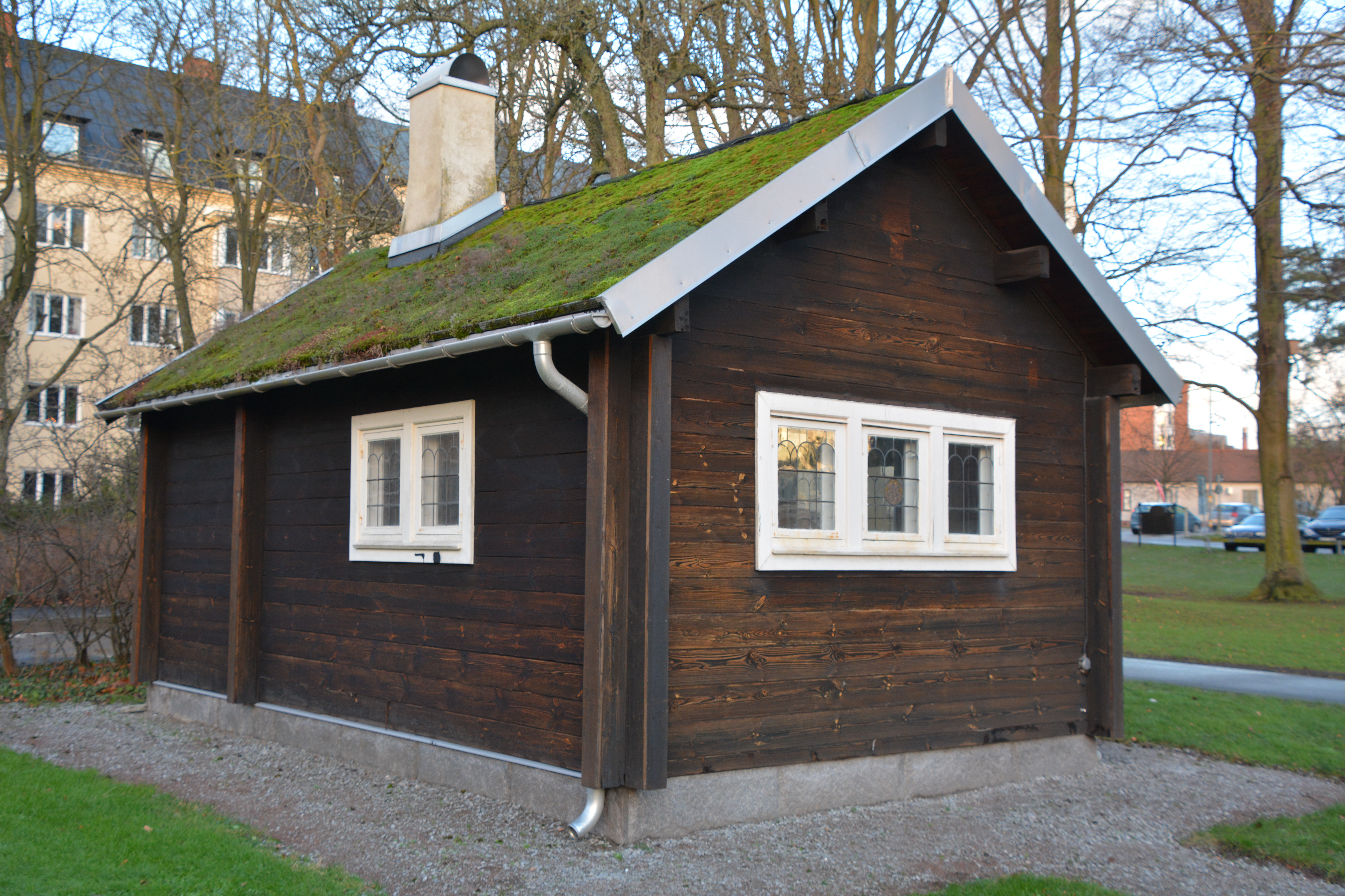 Blendas stuga, at the premises of Quennerstedtska villan in Lund, Sweden, is erected 1904 and one of the oldest playhouses in Sweden.